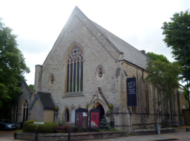 Putney Arts Theatre, Ravenna Road SW15